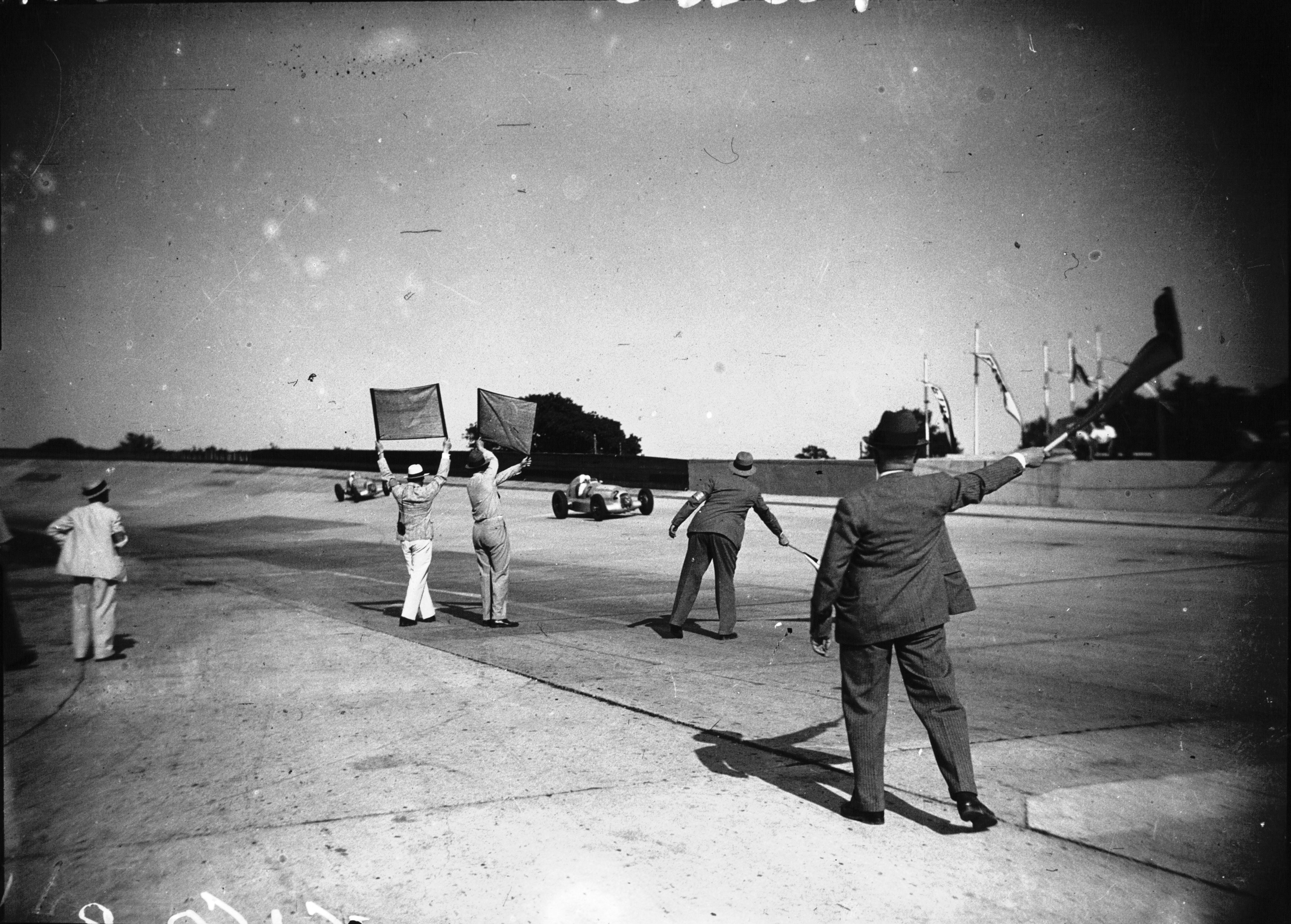 Finish of the 1935 French Grand Prix